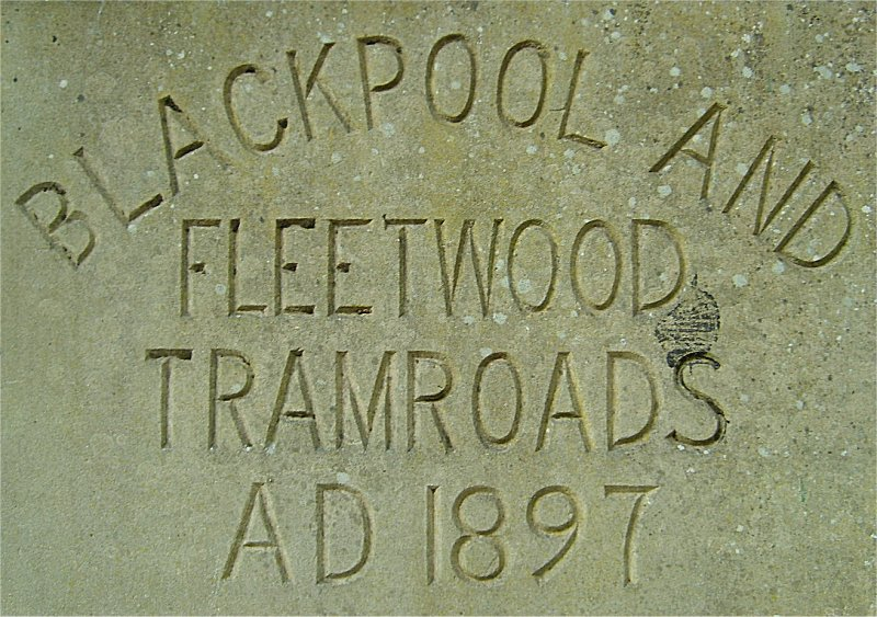 Bispham depot headstone preserved at Crich's National Tramway Museum.